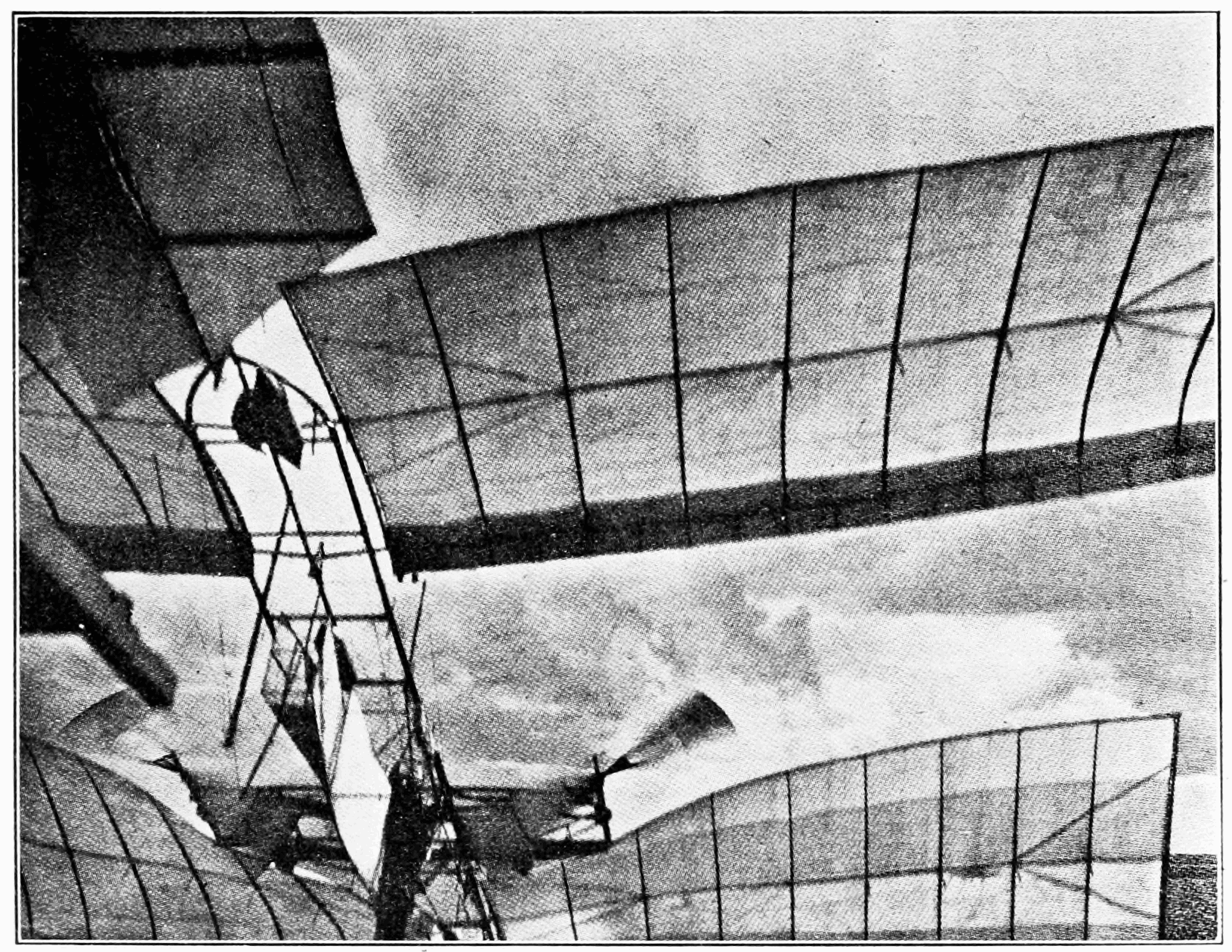 Launch of experimental flyer at Langley Aerodrome